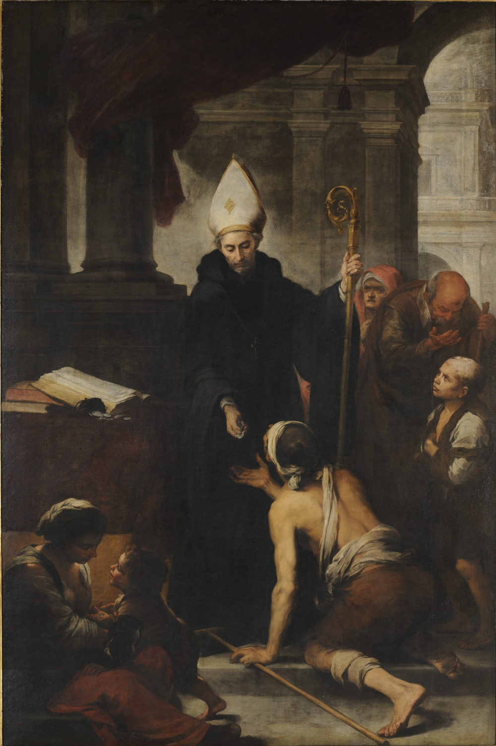 The boy to the right shows clear signs of Tinea capitis.